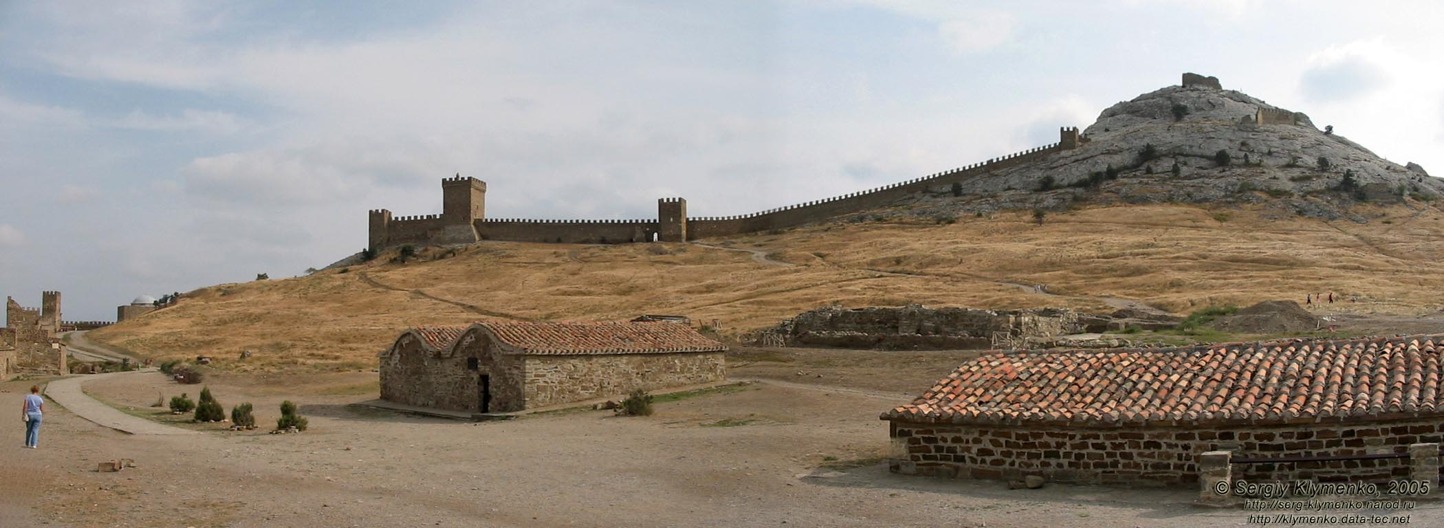 The Genoese fortress of Sudak, Ukraine. 14th-15th centuries. The inside panorama.